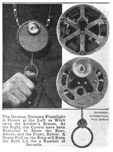 Photos of a hand-powered dynamo flashlight used by German soldiers in World War 1. The small unit was worn on a cord around the neck. Pulling the pull-chain spun a flywheel in the device, turning a dynamo to generate electricity that lighted the small incandescent bulb on the front. Each pull kept the bulb lit for about 5 seconds. It was taken from a captured German soldier in 1918. This is one of the first examples of a hand-powered flashlight.